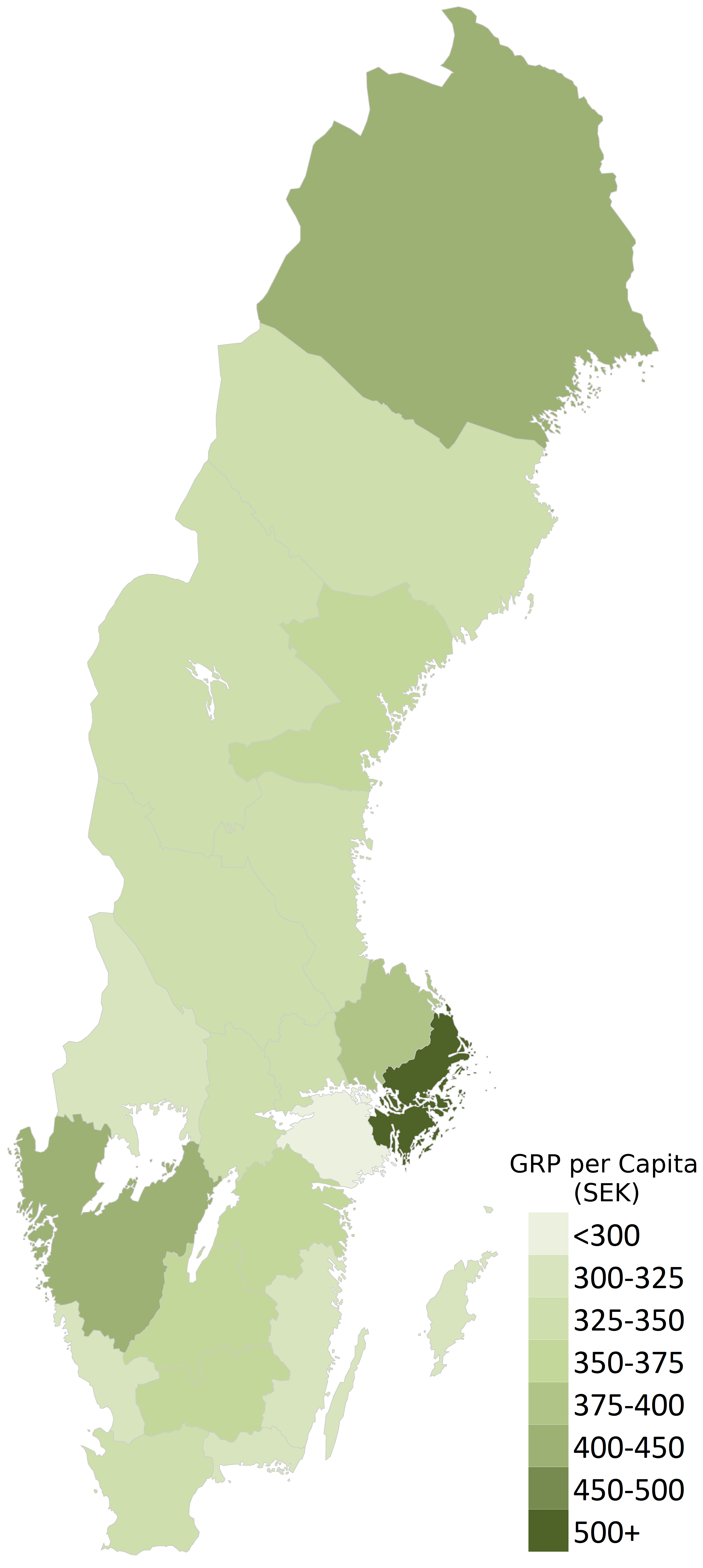 Map of GRP in thousands of SEK by county in 2014.